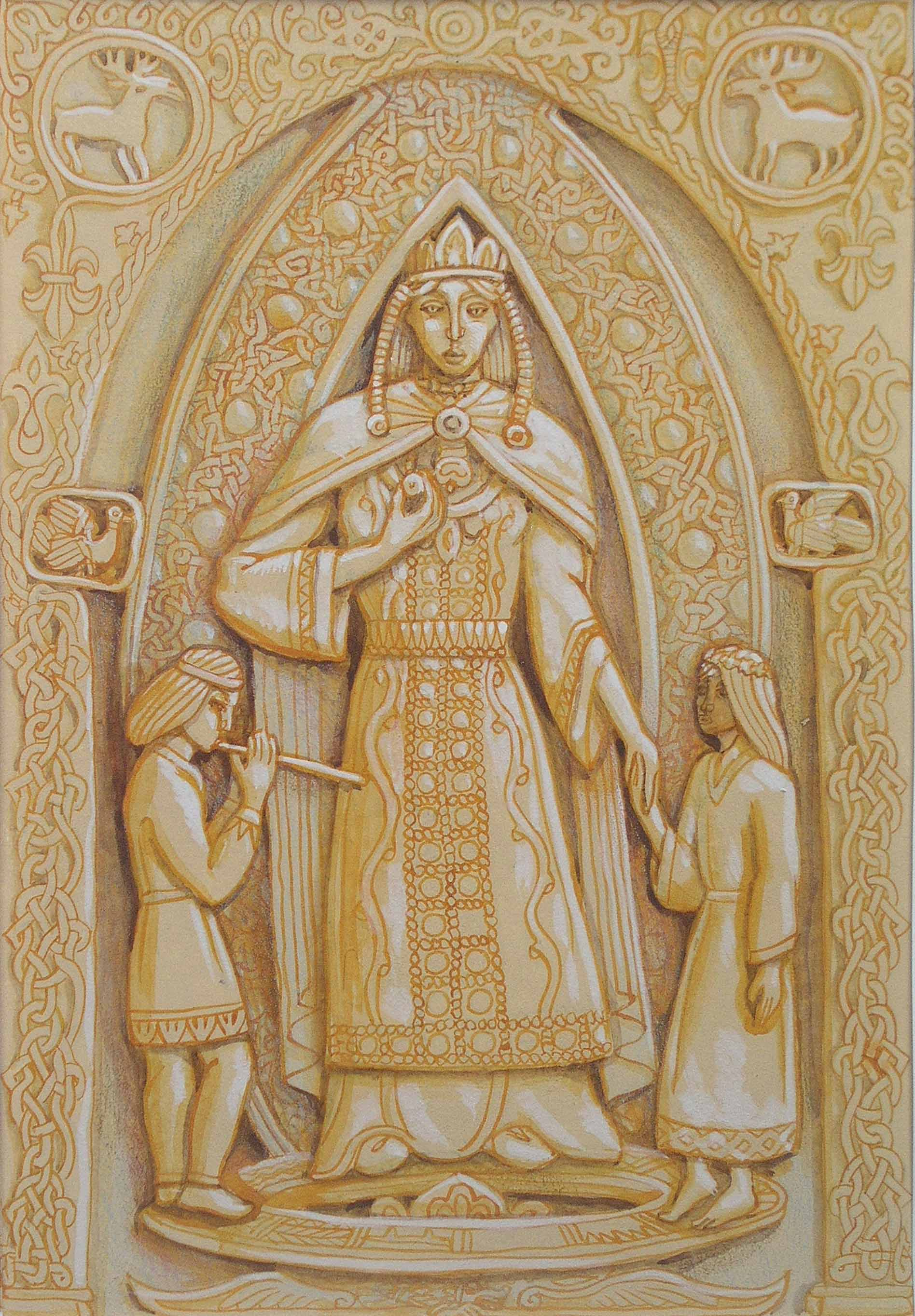 LadaHrvatski: Lada